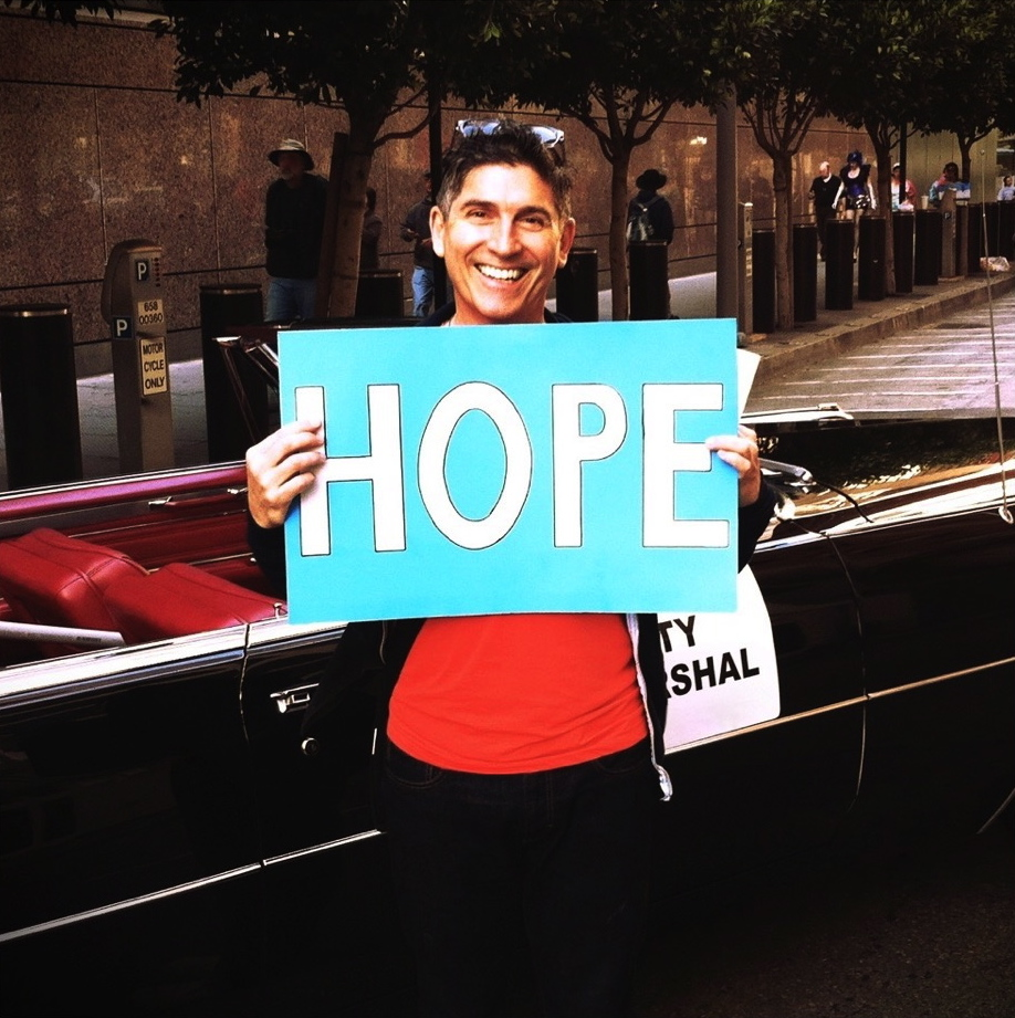 James Lecesne representing The Trevor Project as San Francisco Gay Pride Parade Grand Marshall 2011